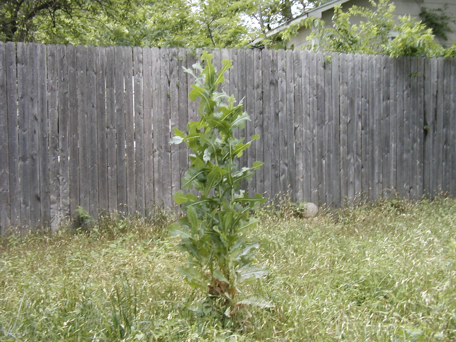 This is a clump of Lactuca serriola - prickly lettuce - that grew in my backyard, starting in March. It was past its prime by May, when this photo was taken. There are nine plants in the cluster, and the tallest stands at 5' (1.5 m)